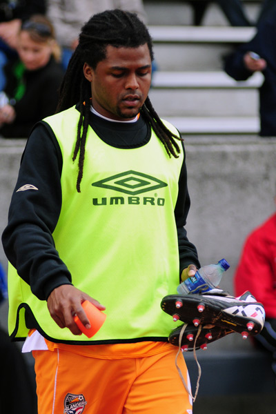 Headshot of soccer player, Alexis Rivera Curet.